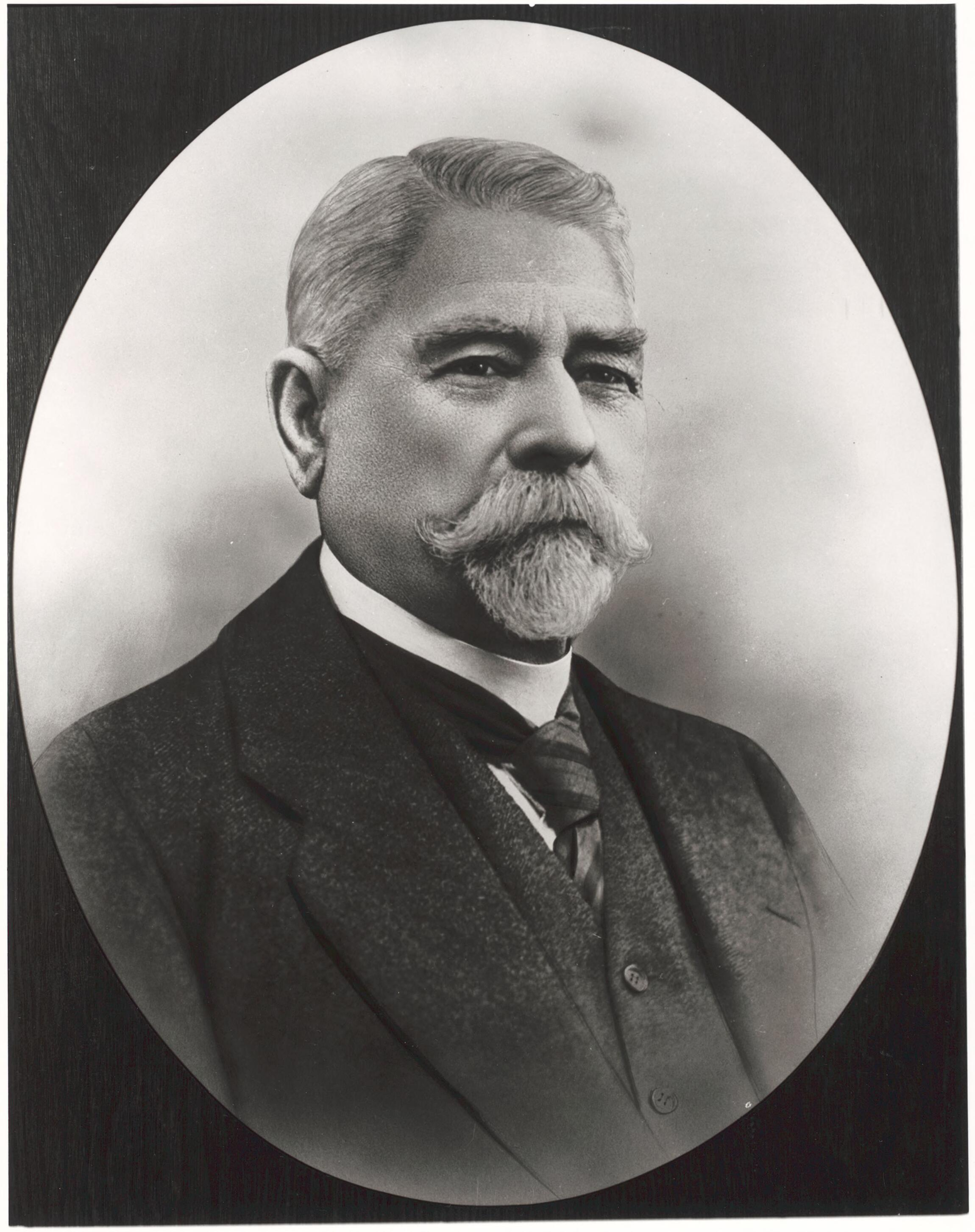 Australian politician Fred Bamford